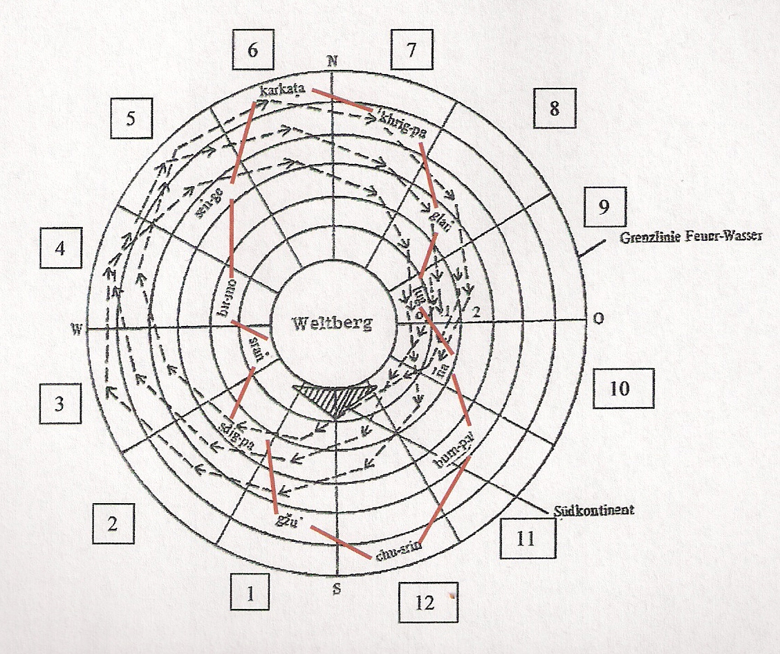 Dayly movement of the sun according to the theory of the Vaidurya dkar-po (1685)